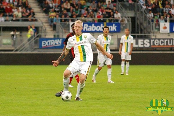 Lex Immers, in Europa tenue